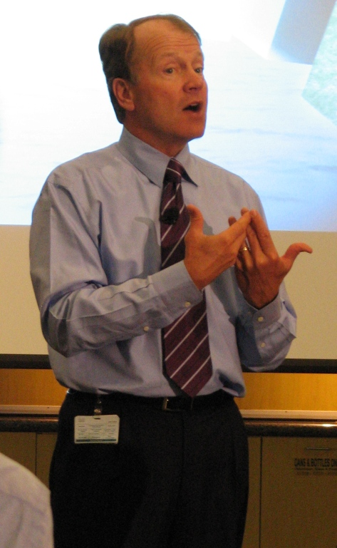 John Chambers speaking at a meeting with interns